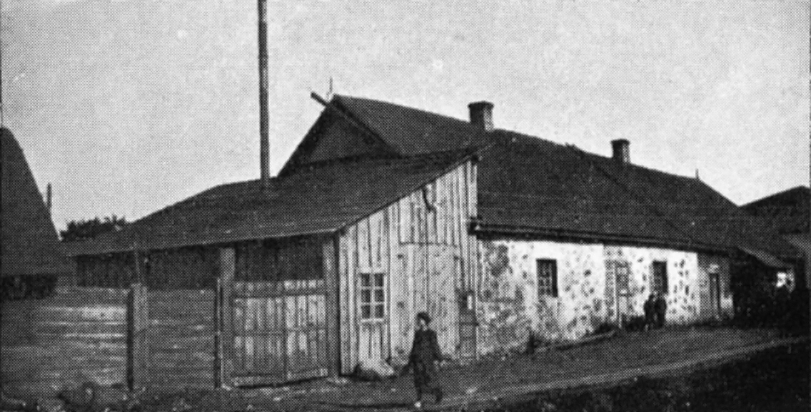 Jewish public school in Zdzięcioł, Republic of Poland (now Dziatłava, Belarus). Photograph by Lejbowicz.